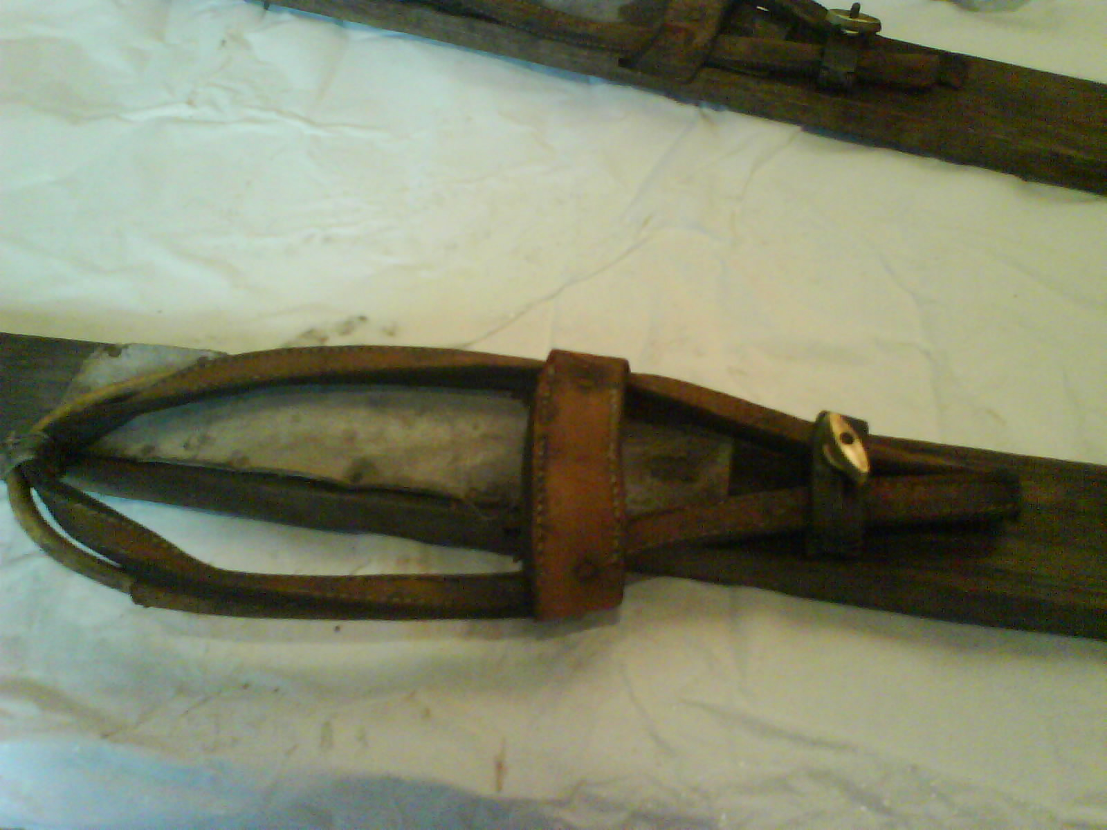 Old sky binding